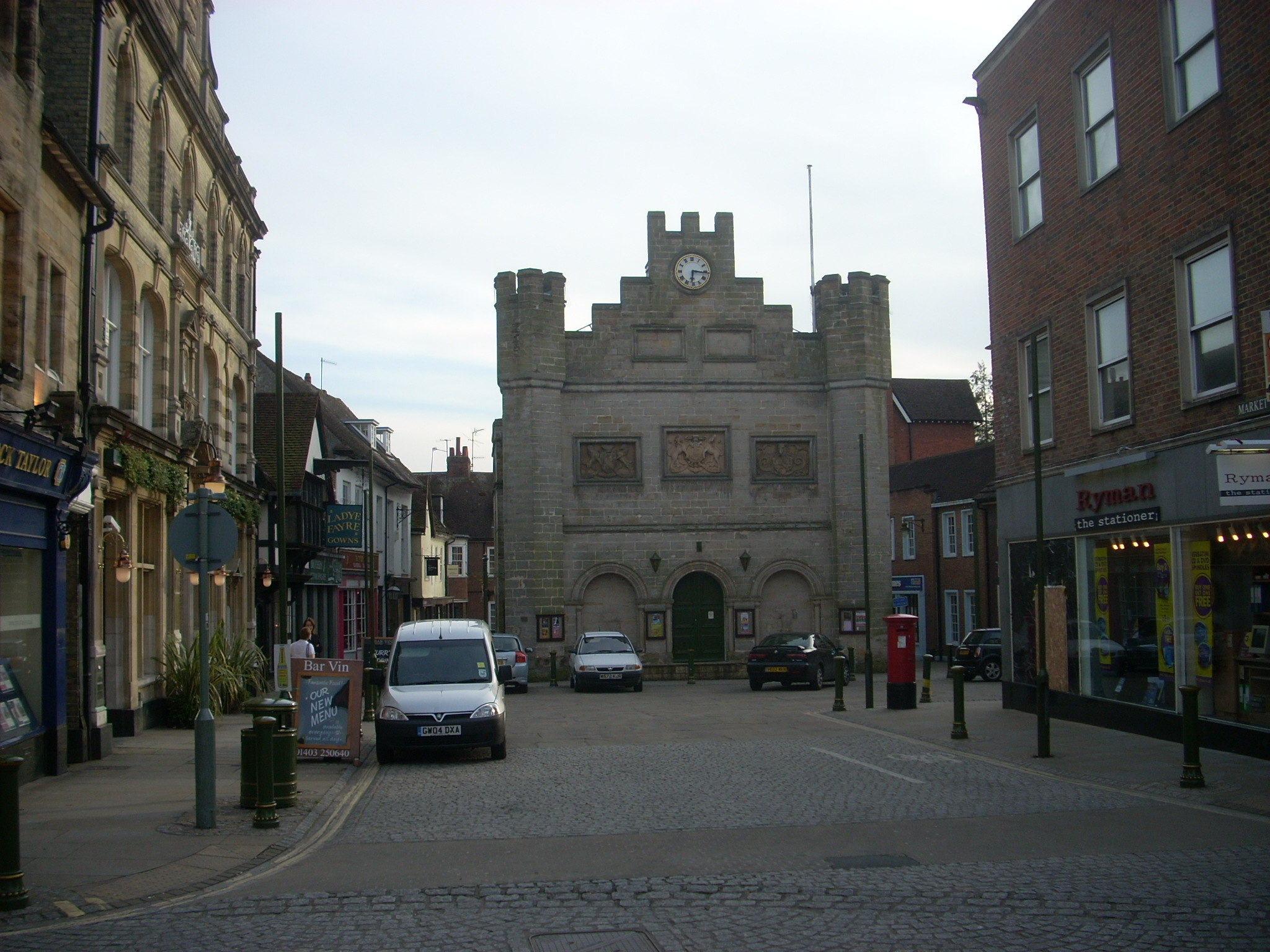 Horsham Town Hall